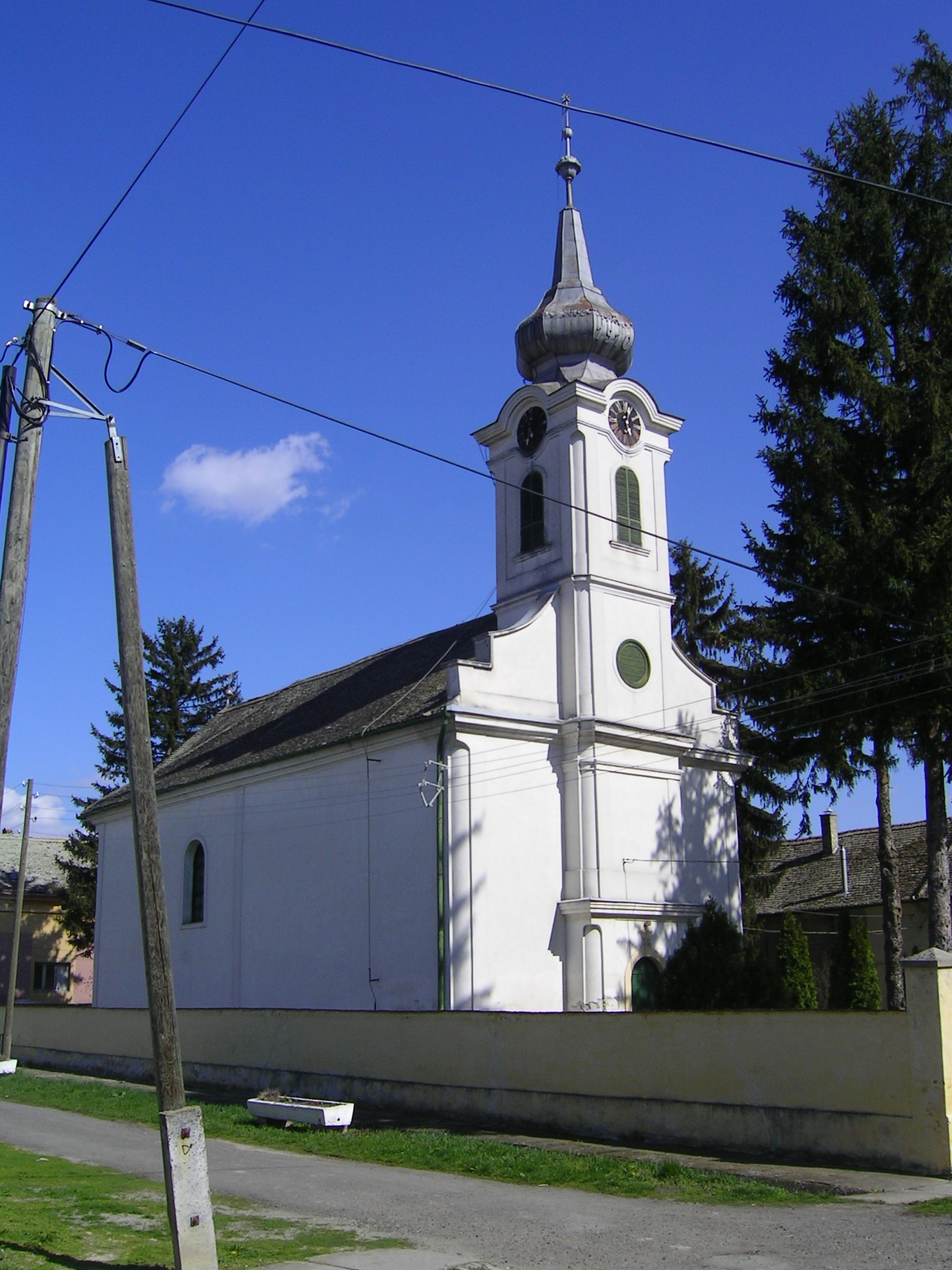 Calvinist church in Kölked, Hungary